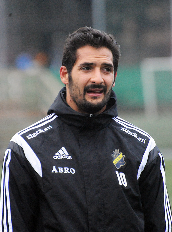 Celso Borges in one of his last days as an AIK player